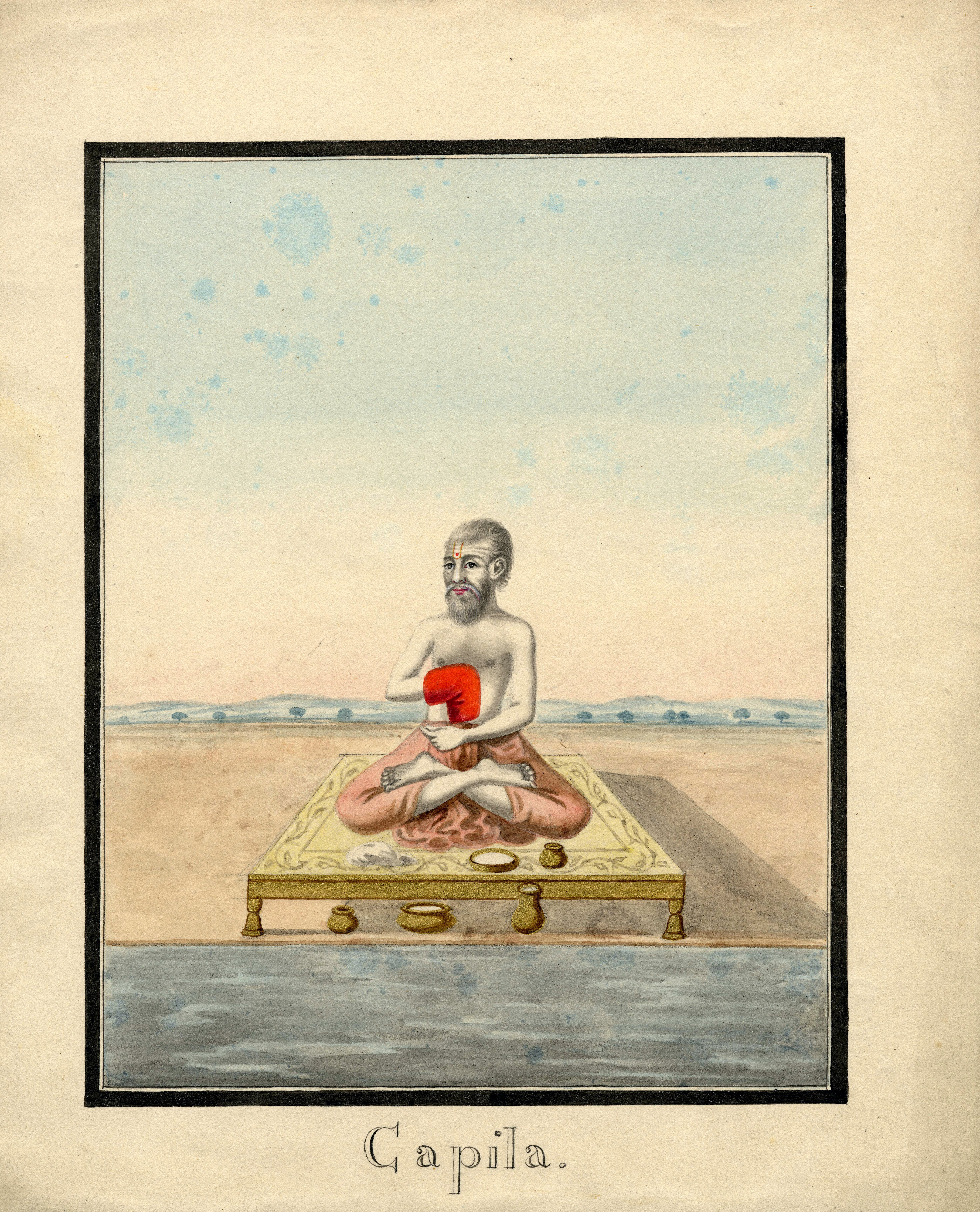 Kapila, a Vedic sage. He is shown seated on a raised platform, wearing a dhoti and bare-chested. He is seated cross legged and holds a pot in his left hand. His right hand is hidden in a red sleeve, possibly containing a string of beads. He has a Vaishnava naman (emblem) on his forehead. In front of him and the platform are small vessels. The platform is on the edge of a body of water and in the distance can be seen trees. The painting is surrounded by a black border.